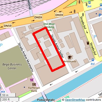 Map of heritage site "Ansamblul urban Str. Anton Seiller", Timișoara, Romania